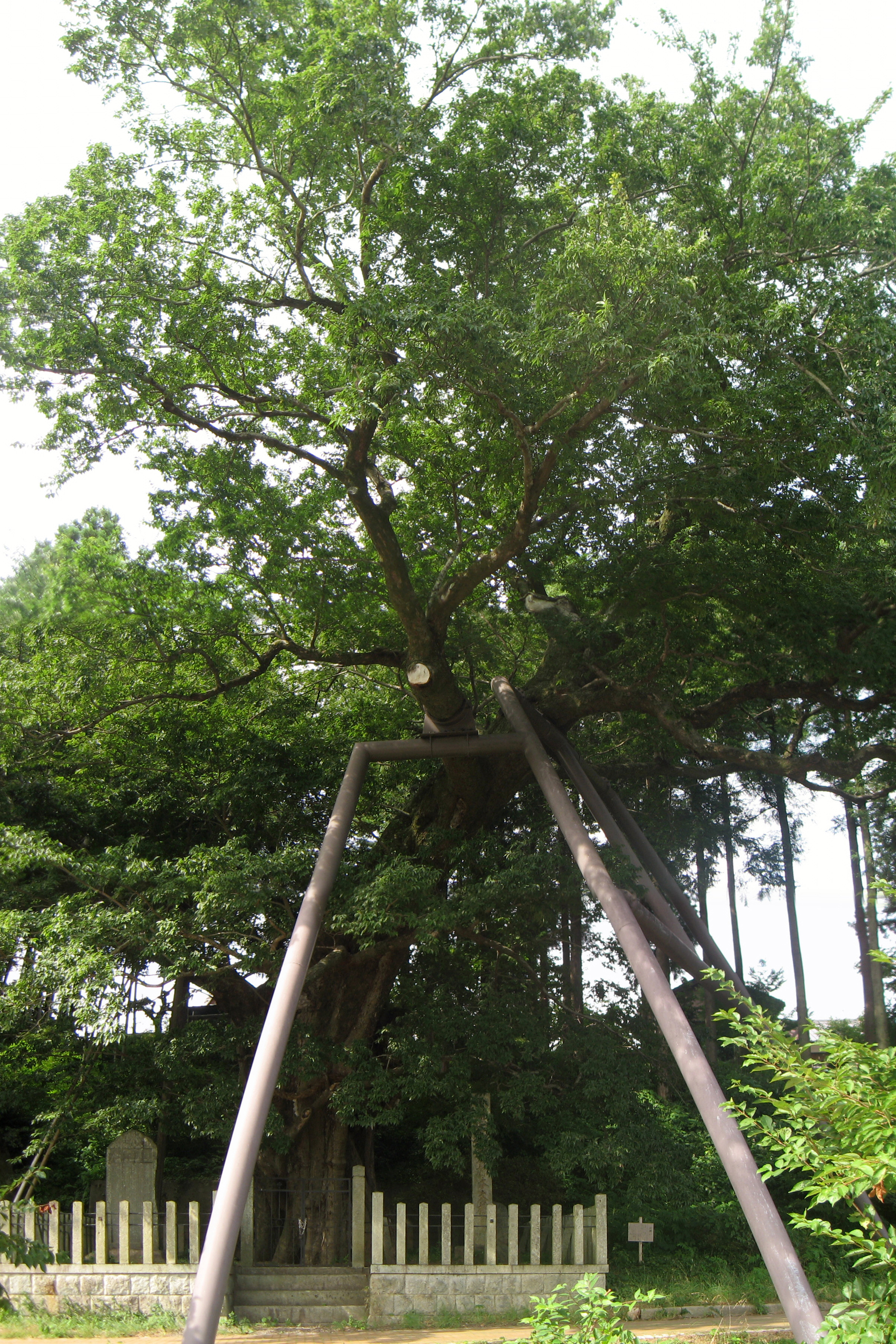 Aphananthe aspera at Mukumoto (Natural monument of Japan).This is a composite image of 3 photos.Date taken(YYYY-MM-DD): 2010-08-07Place taken: Mukumoto, Geinō, Tsu, Mie, Japan.